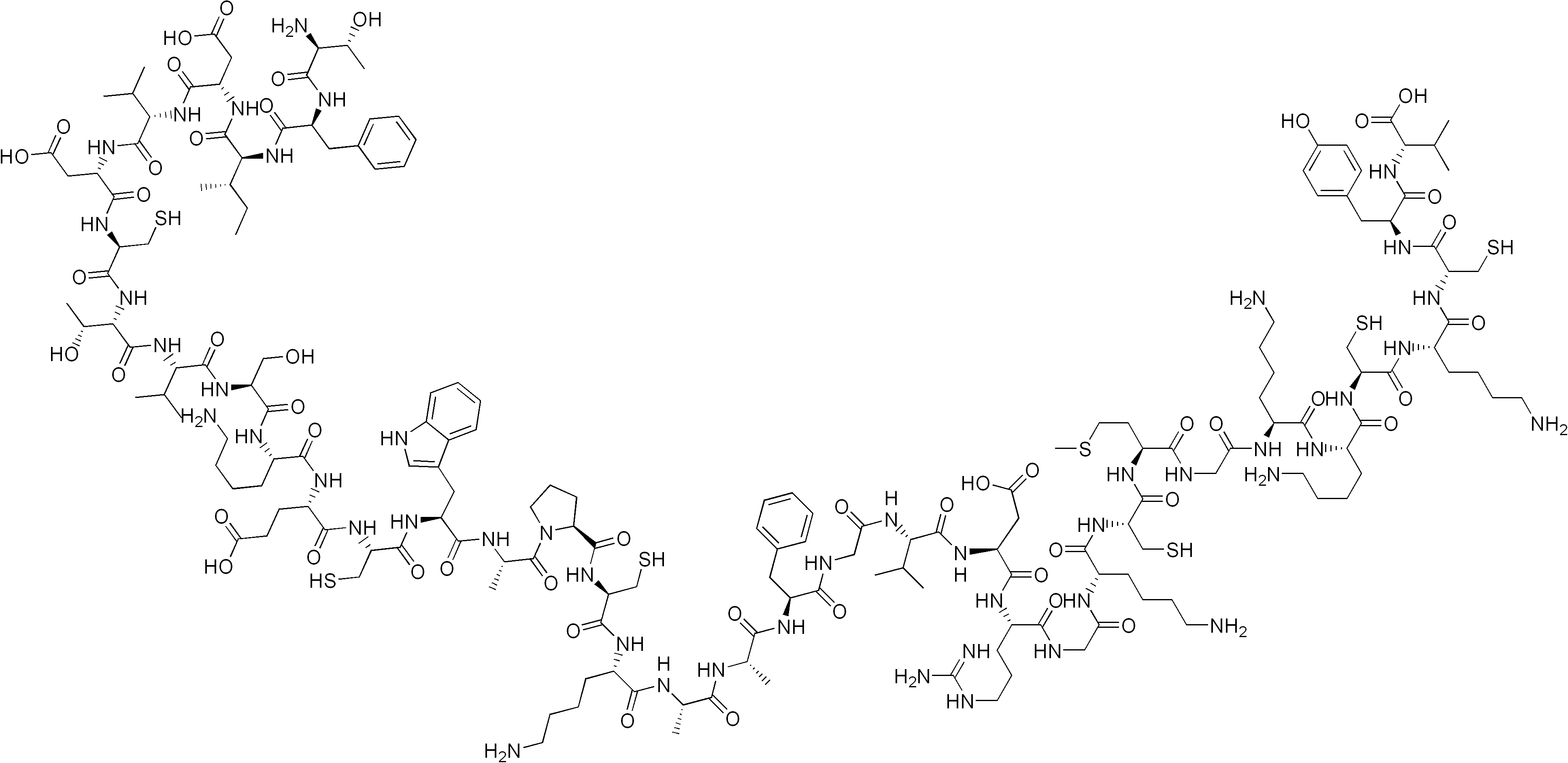 Chemical structure of slotoxin